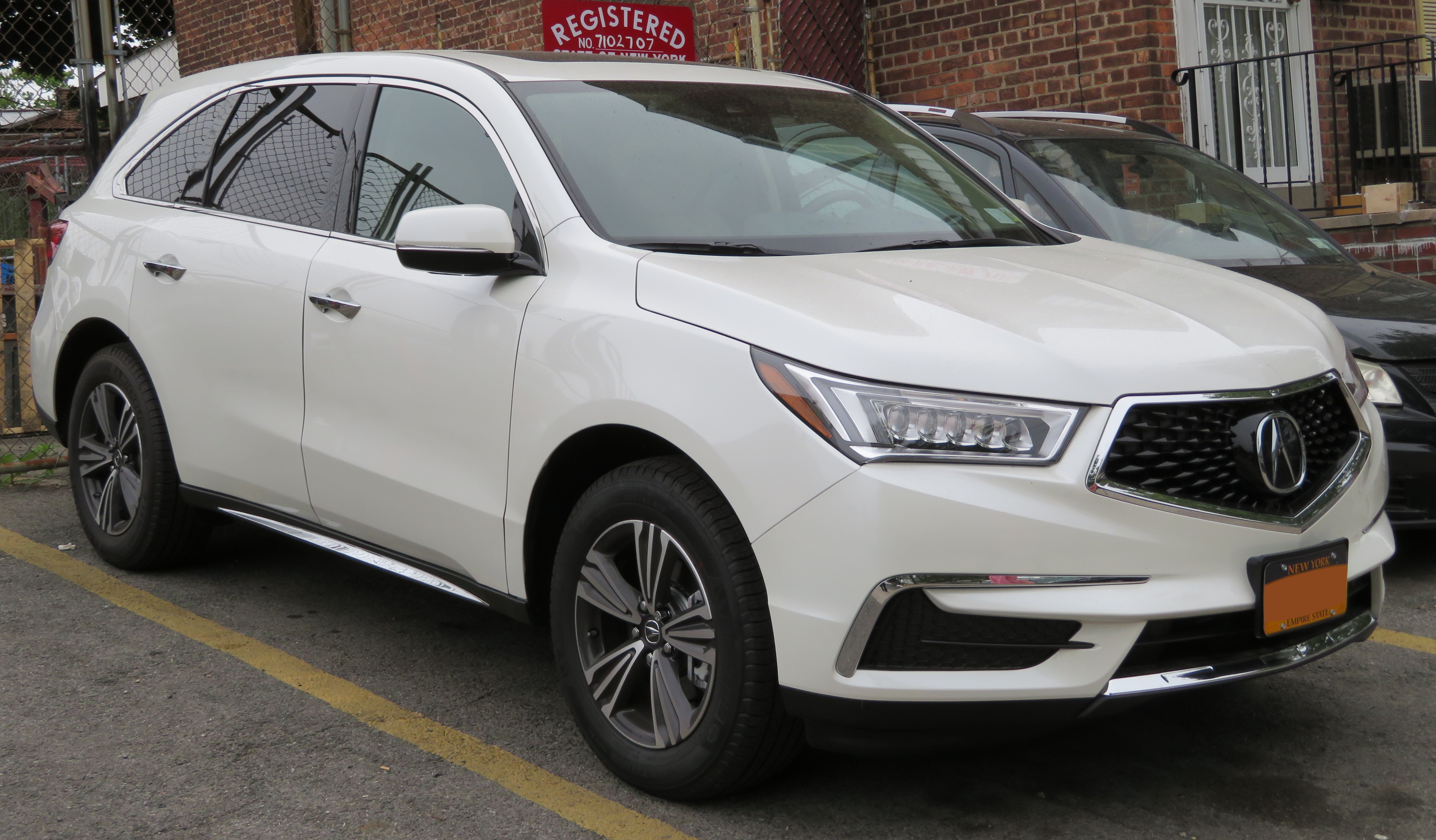 Photographed in Queens, New York